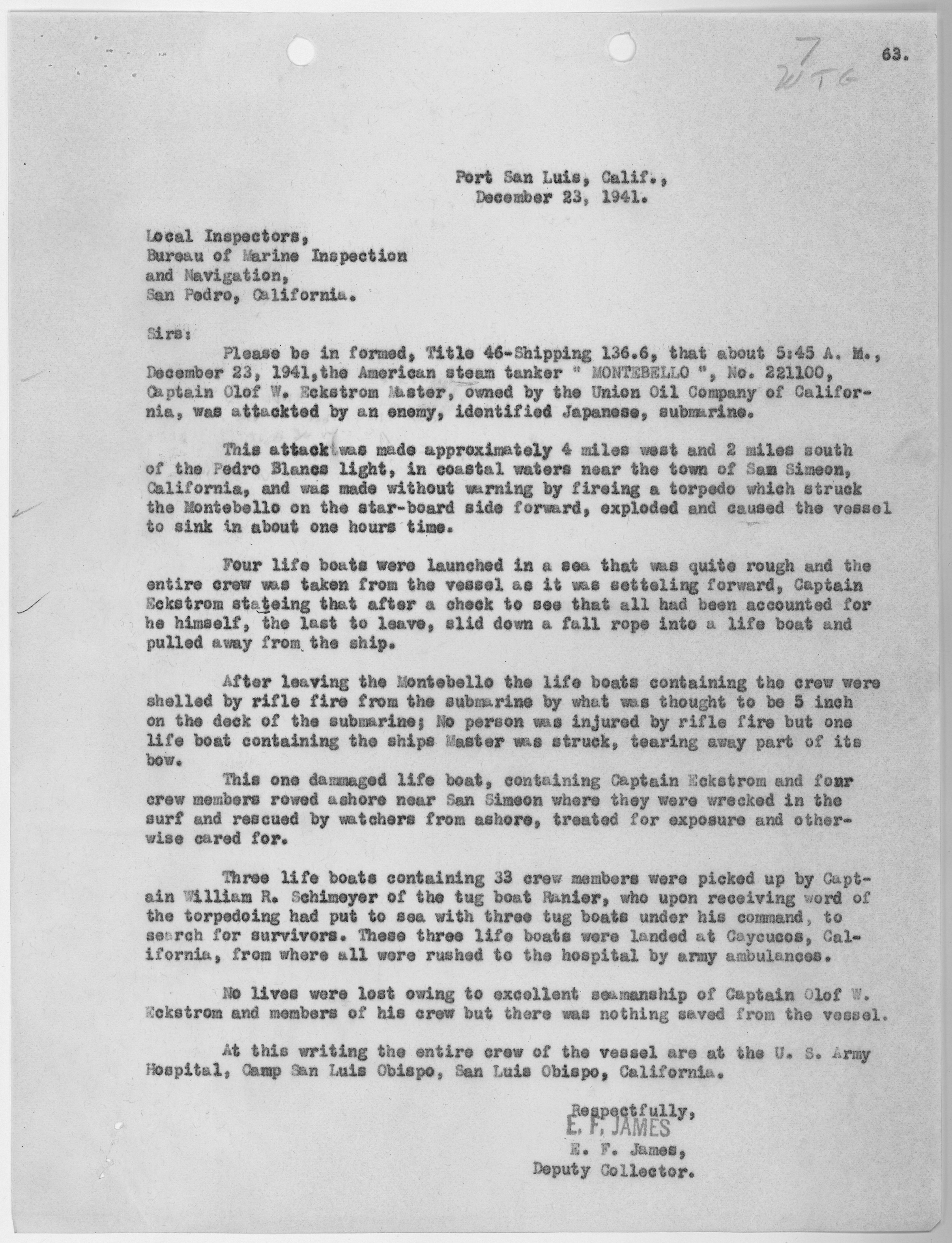 Scope and content: Notification sent by the Port of San Luis Obispo Deputy Collector, E. F. James, to the local Inspectors of the Bureau of Marine Inspection and Navigation at San Pedro, CA. reporting the circumstances surrounding the torpedoing of the S. S. Montebello by a Japanese submarine on January 23, 1941.